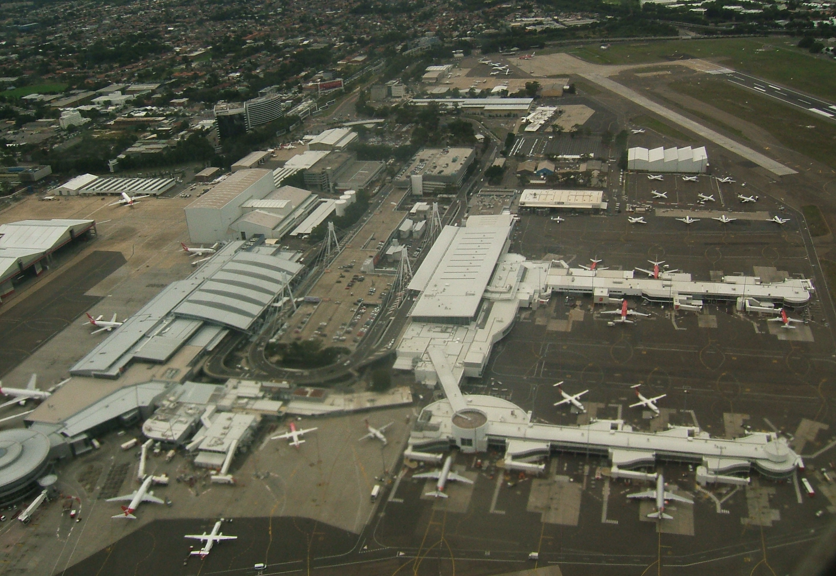 Aerial view of Sydney Airport Domestic terminal